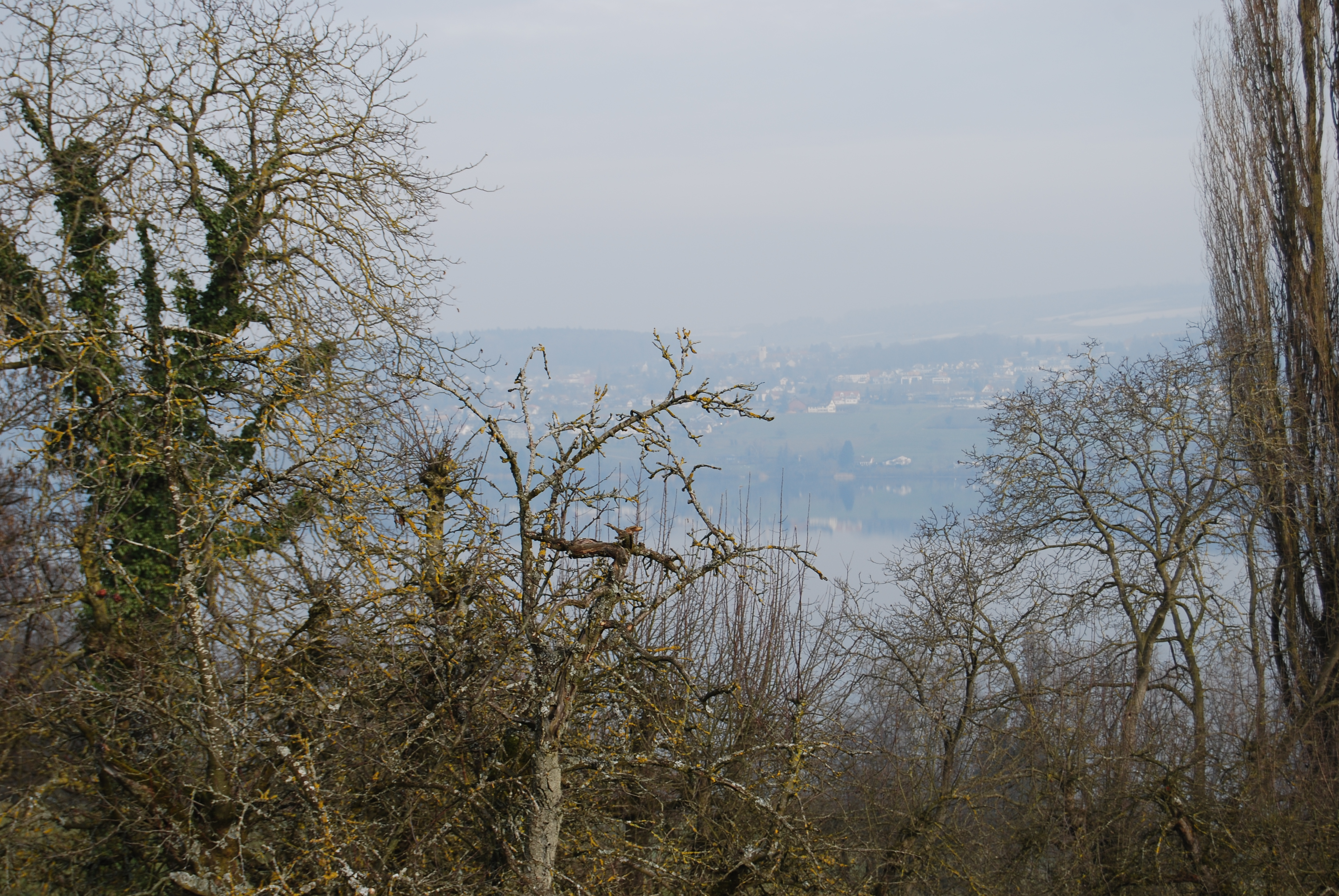 Lake Hallwil, seen from Restaurant Seetal, Beinwil ĉe la lago, canton of Aargau, SwitzerlandEsperanto: Lago de Hallwil, vidita de la restoracio Seetal, Beinwil ĉe la lago, Kantono Argovio, Svislando